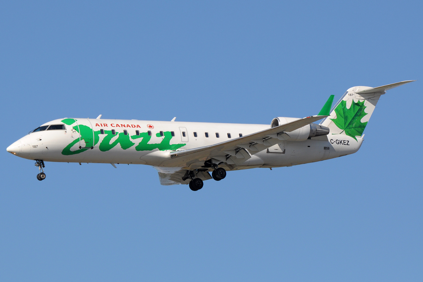 Air Canada Jazz CRJ200 landing in Vancouver